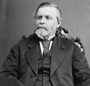 Hon. Elijah Leonard, (Senator) 1814-1891 - also Mayor of London, Ontario